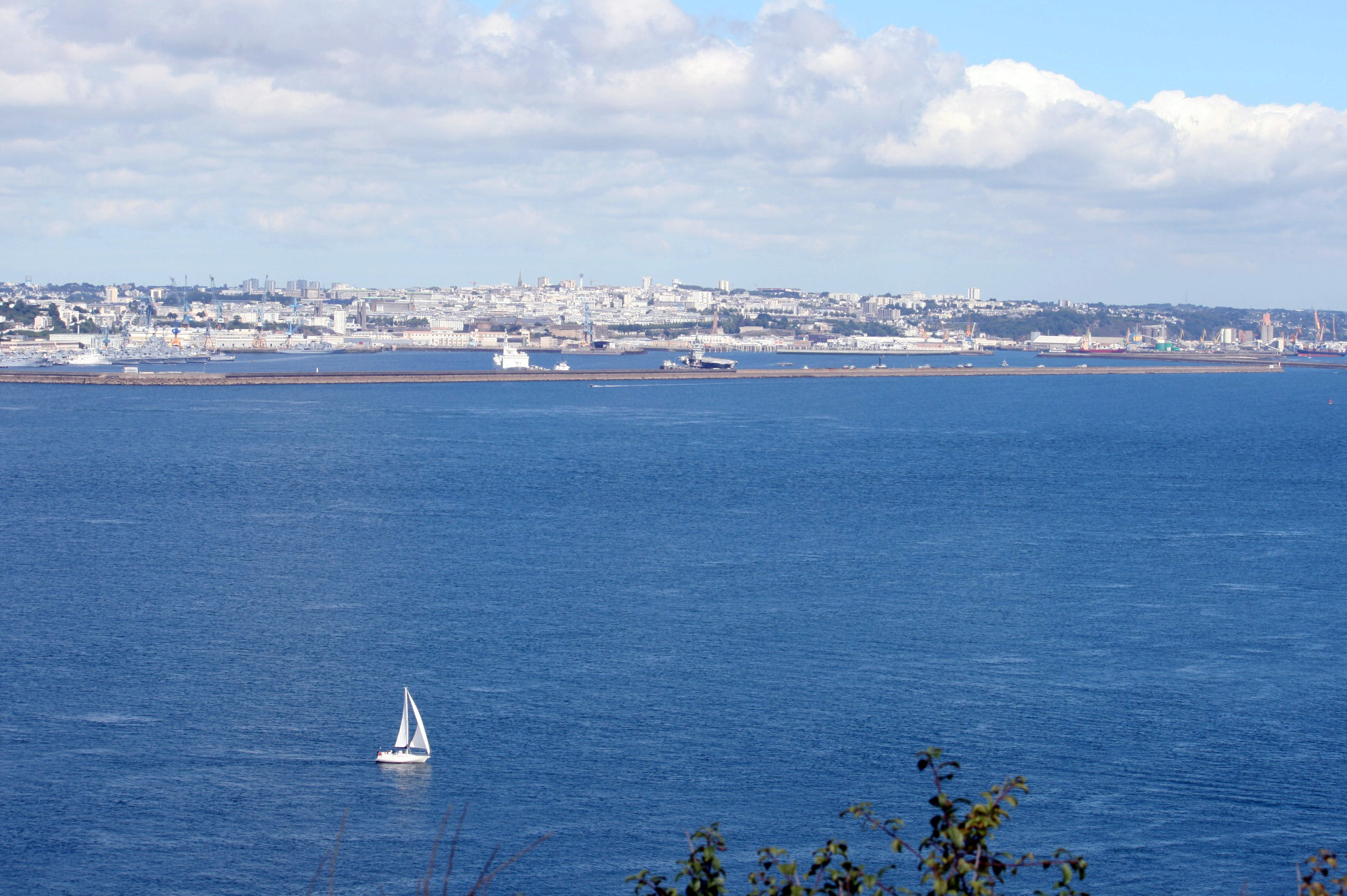 View of the city of Brest - Image taken from pointe des Espagnols